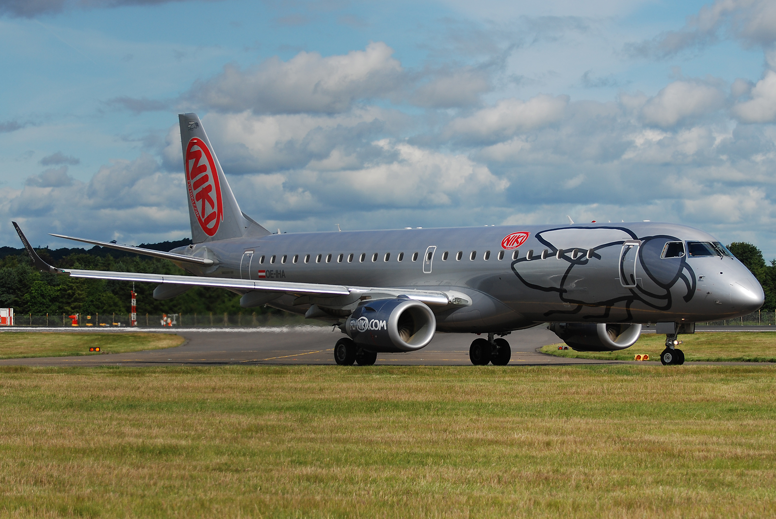 Niki Embraer 190 OE-IHA at Edinburgh Airport